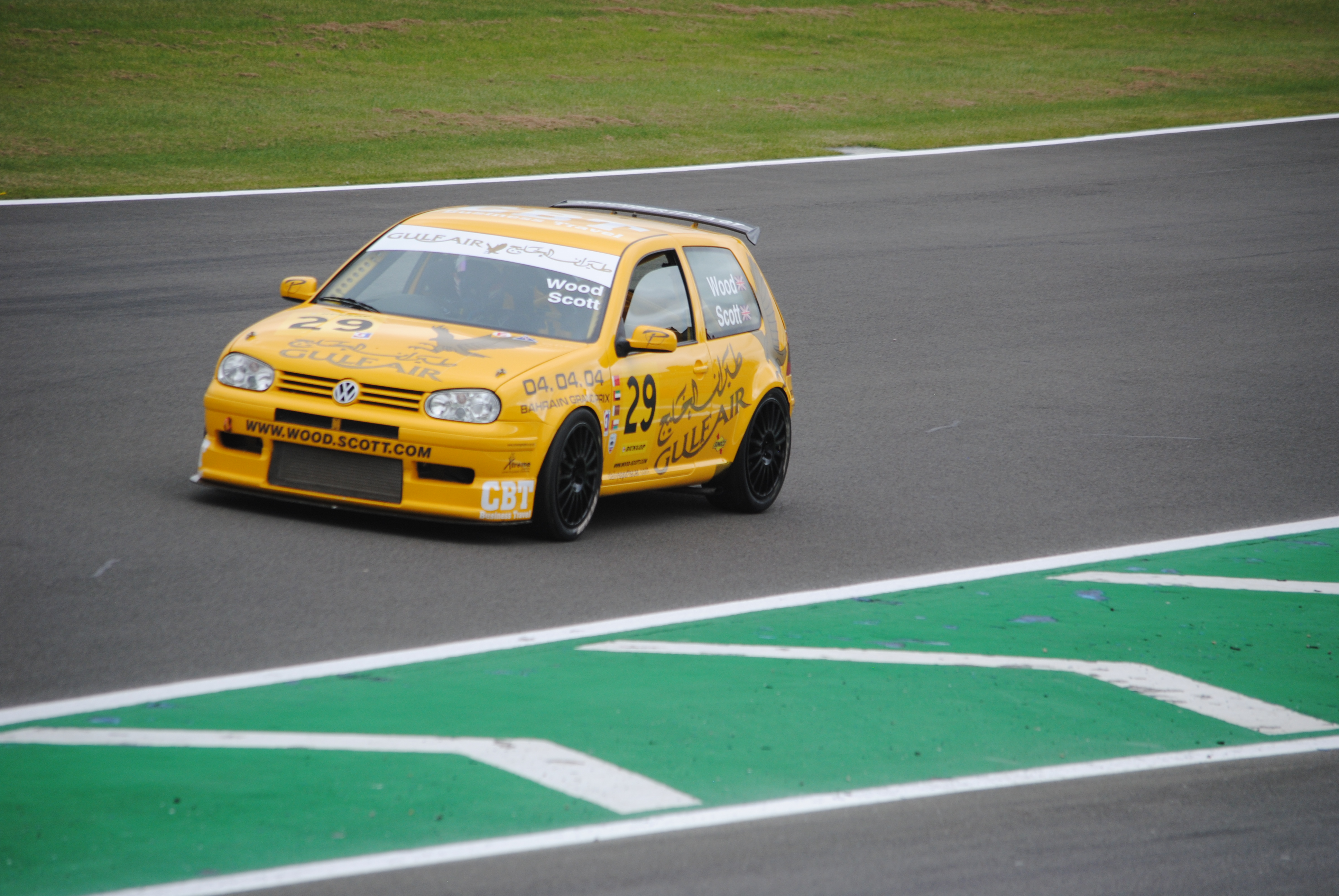 This Volkswagen is notorious for competing in the 2003 British GT season, as well as the 2003 1000km of Spa, although retiring early on. As displayed in the photo, this car was driven on a parade lap to celebrate the British GT's 300th race, driving alongside a Marcos Mantis, a Jaguar XJ220, a TVR Cerbera Speed 12, a TVR T400R, a Morgan Aero 8 GT and three Aston Martins (including 2018's GT3 champion car).